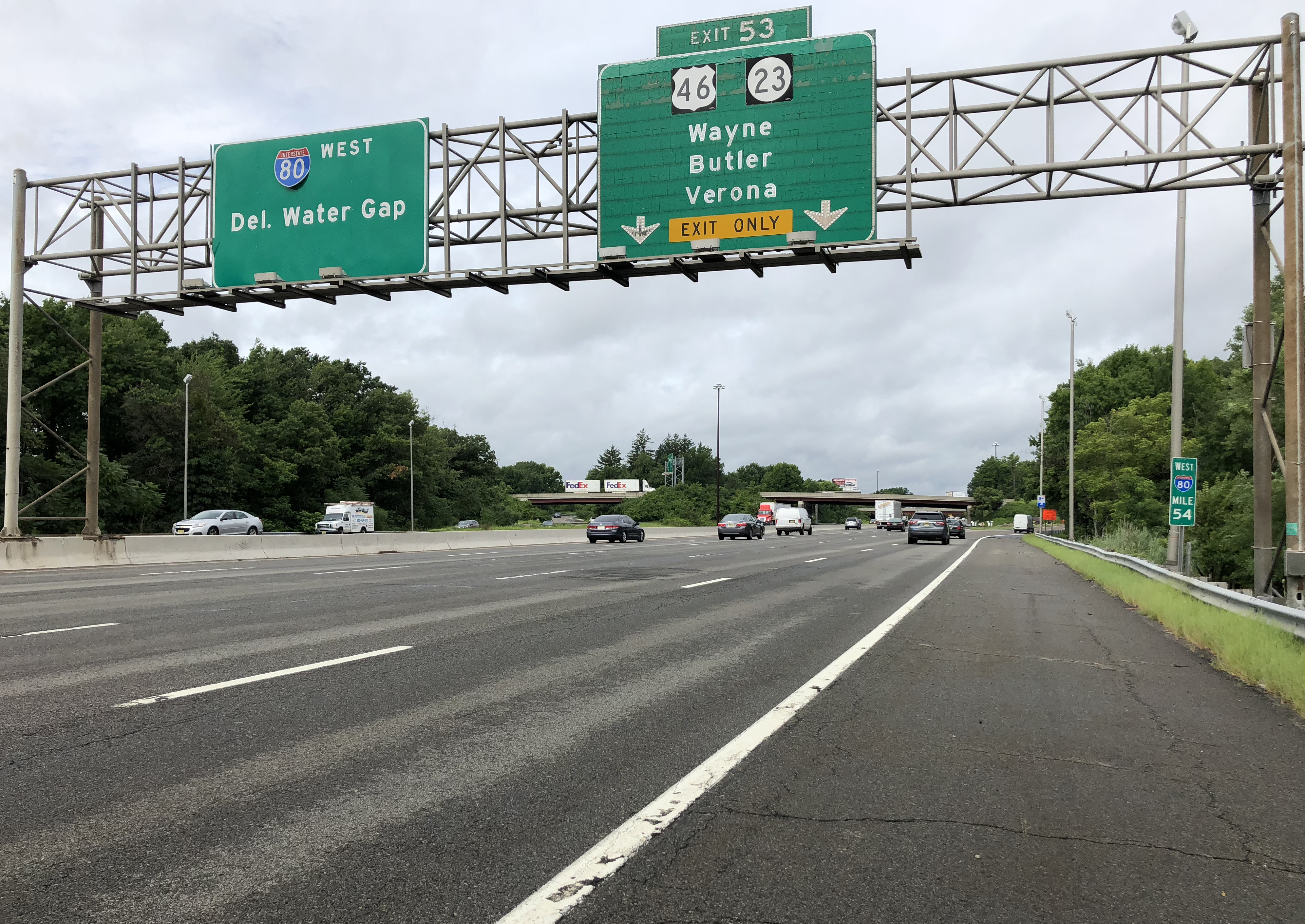 View west along Interstate 80 (Bergen-Passaic Expressway) at Exit 53 (U.S. Route 46, New Jersey State Route 23, Wayne, Butler, Verona) in Wayne Township, Passaic County, New Jersey